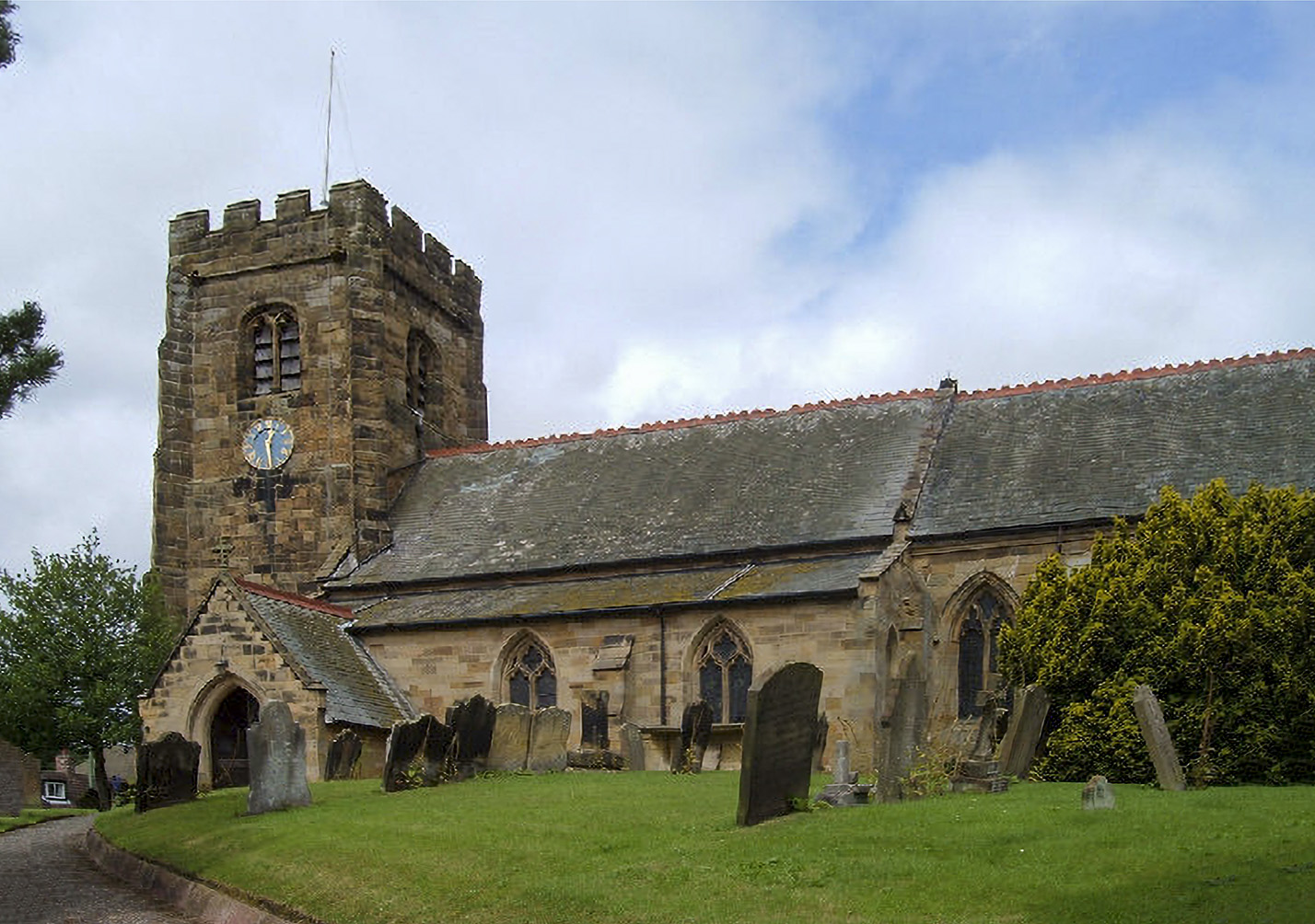 St John the Baptist's parish church, Kirby Wiske, North Yorkshire, seen from the southeast